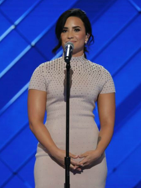 Singer Demi Lovato speaks during the first day of the Democratic National Convention in Philadelphia, July 25, 2016.